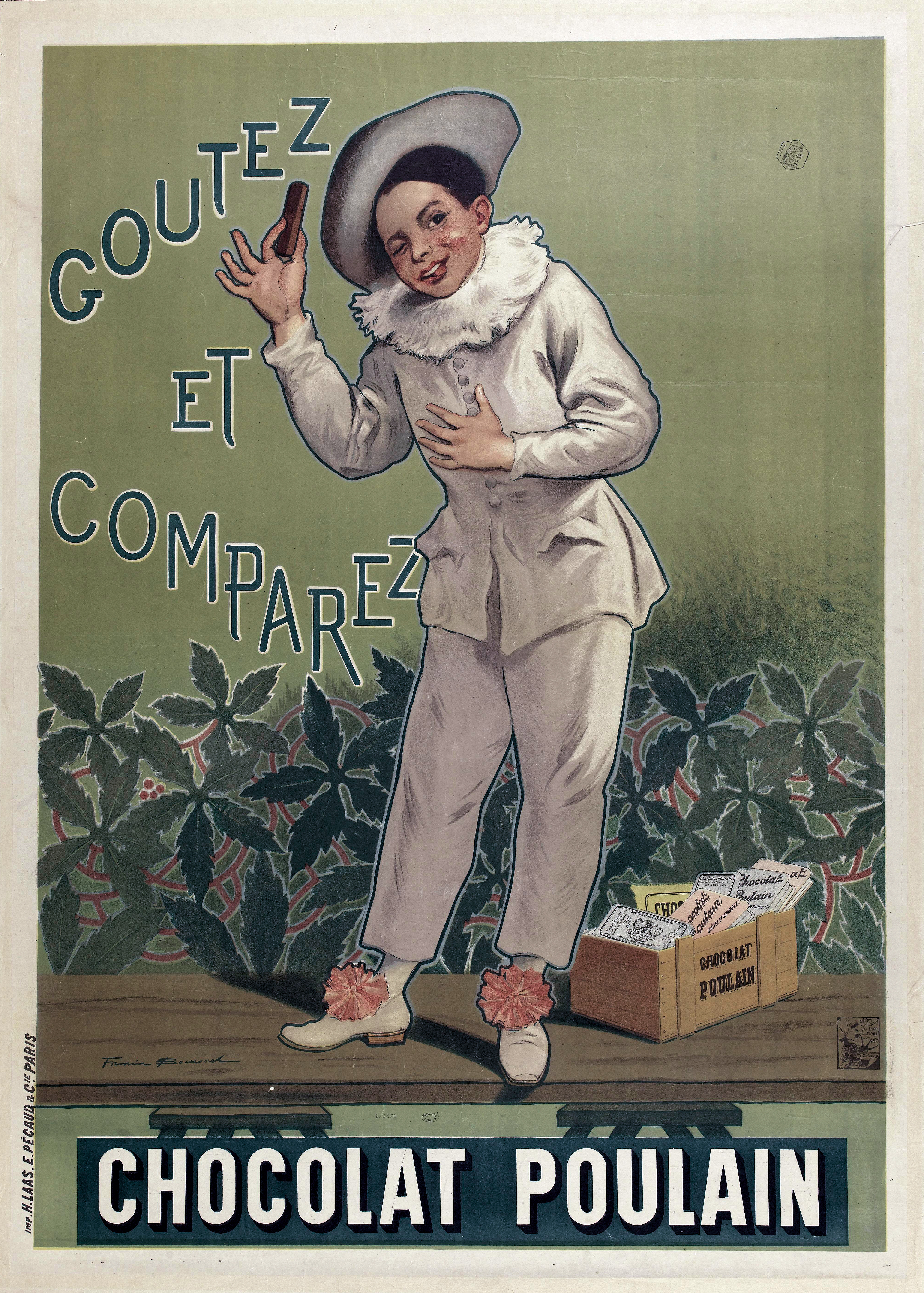 Affiche